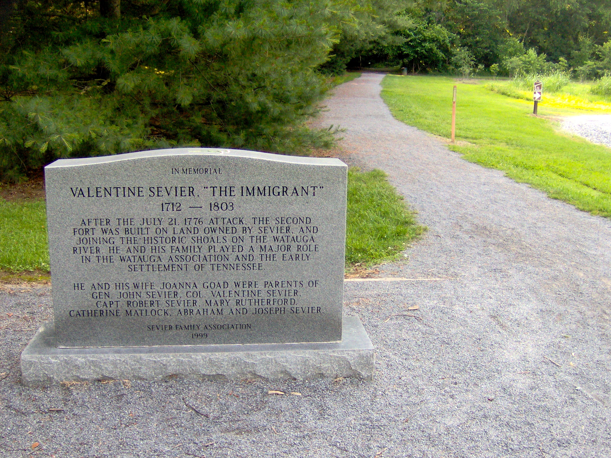 Valentine Sevier (1712–1803) monument along the Mountain River Trail at Sycamore Shoals State Historic Site in Elizabethton, Tennessee, USA. Valentine was the father of Tennessee governor John Sevier. The Seviers arrived in the Sycamore Shoals area around 1773.